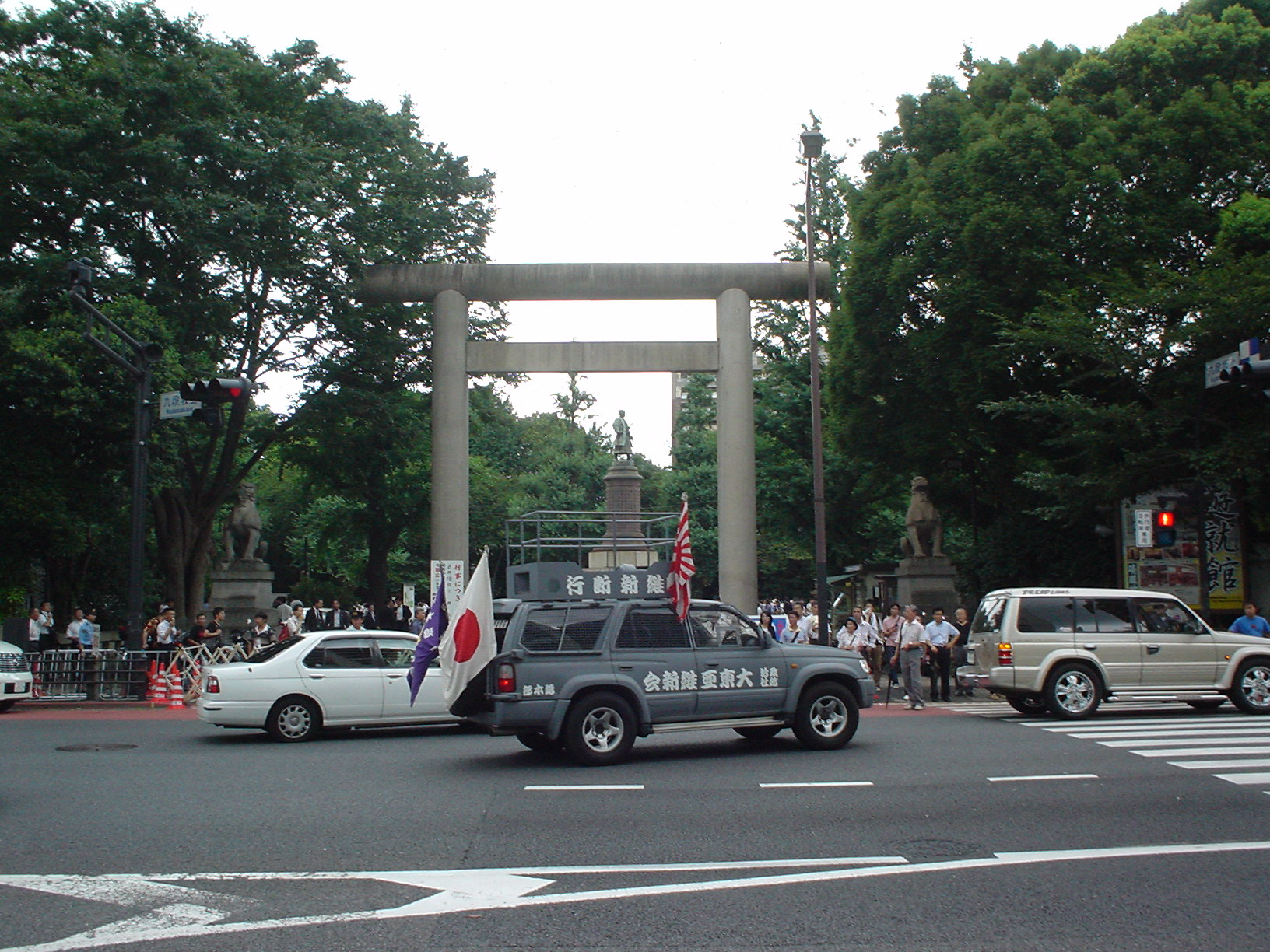 Truck of the Japanese extreme right (uyoku) driving around the street at the Yasukuni shrine on August 15th, the anniversary of Japan's unconditional surrender in WW2